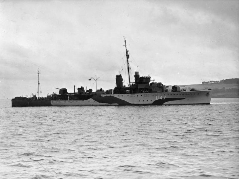 Photograph of British sloop HMS Fleetwood.